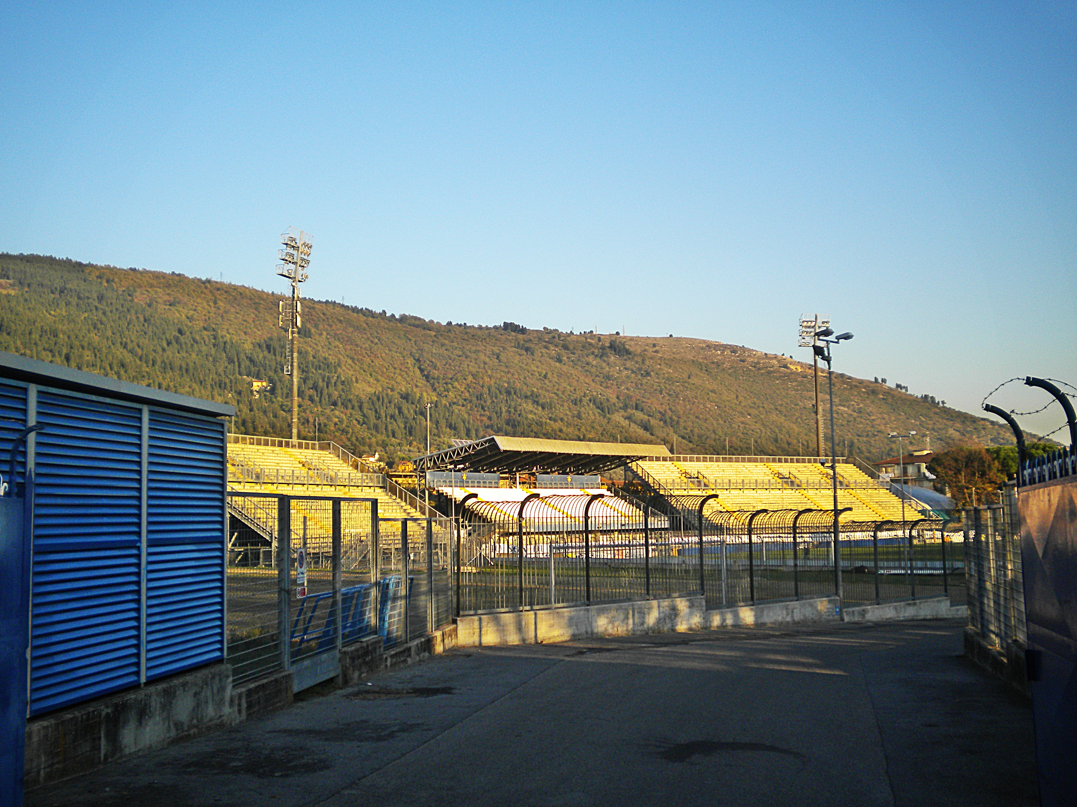 forums